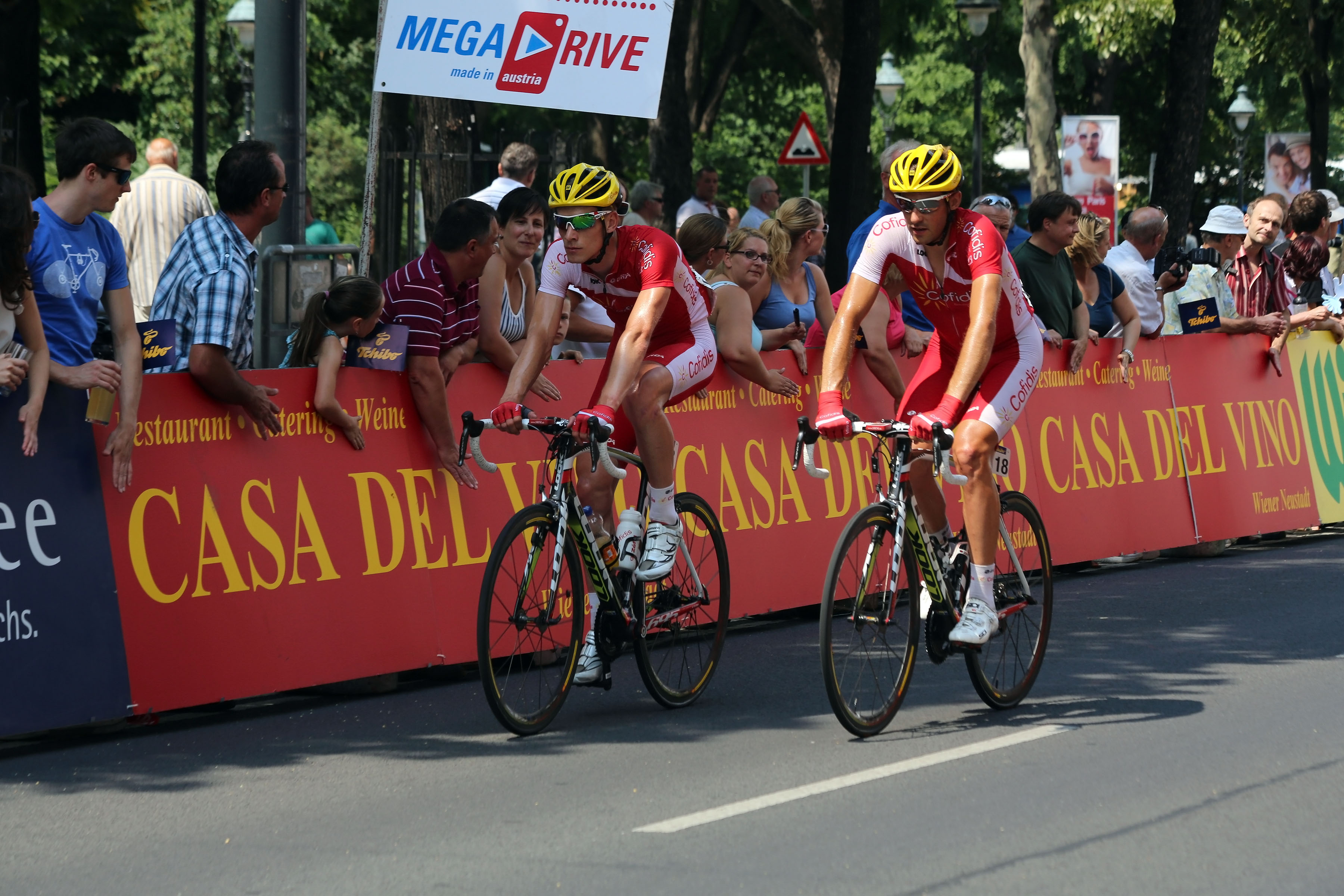 Julien Fouchard (l.) and Tristan Valentin (r.) after finishing the final stage of the Tour of Austria in Vienna, Austria.